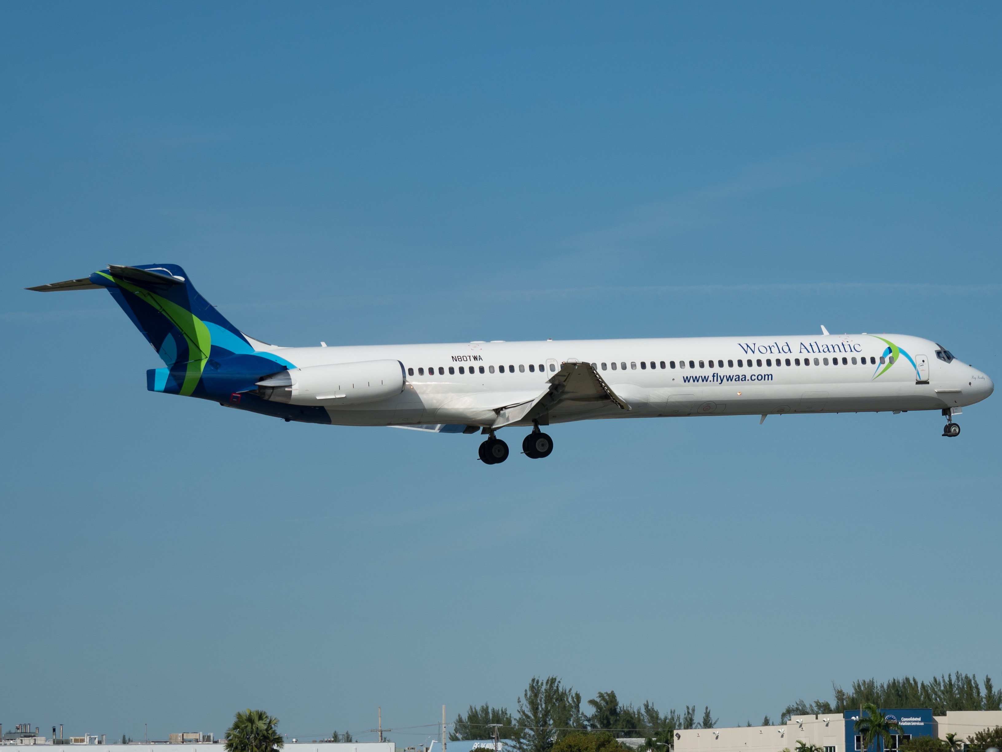 World Atlantic Airlines World Atlantic Airlines McDonnell Douglas MD-83 Miami International Airport